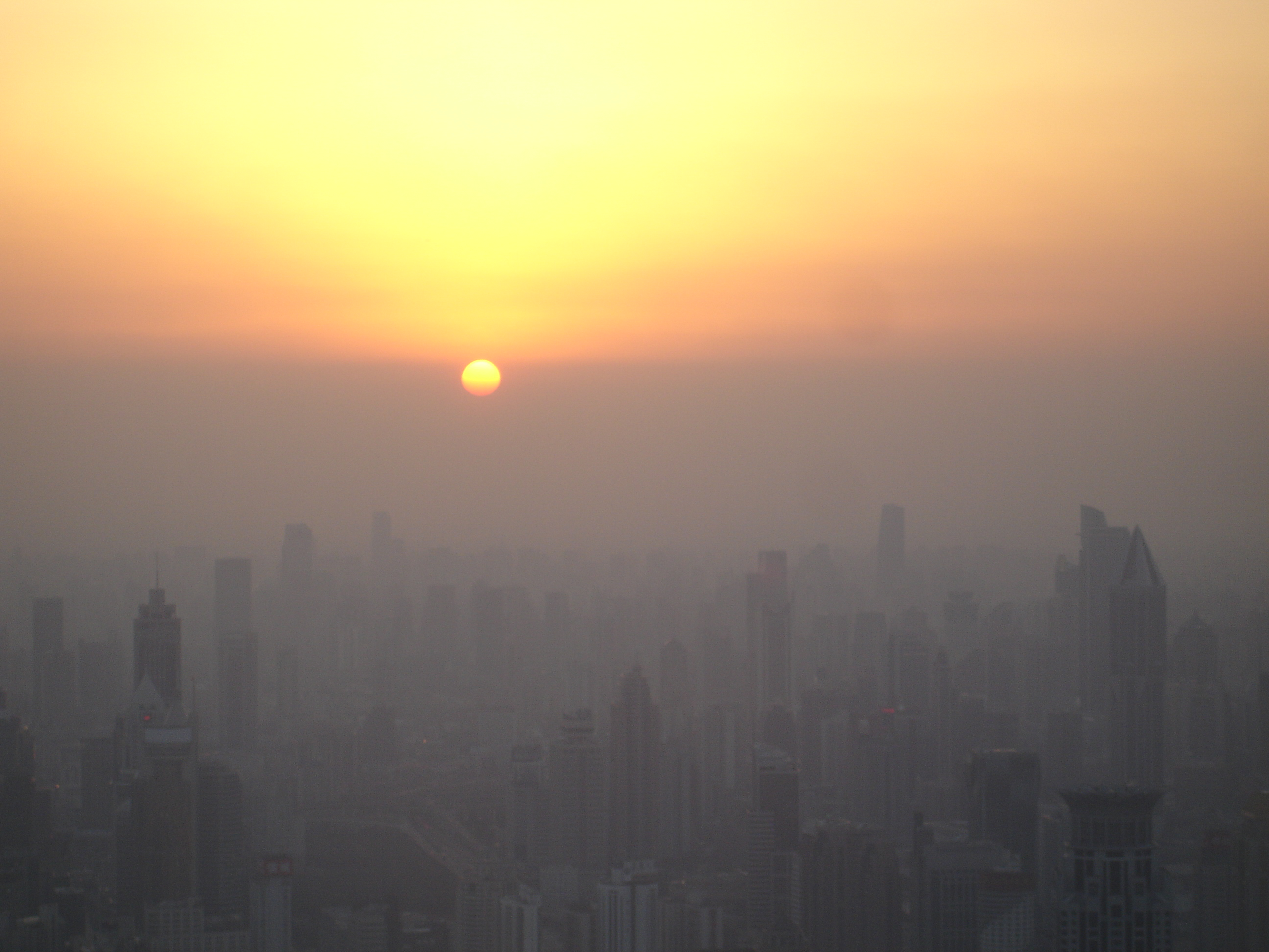 Shanghai at sunset, as seen from the observation deck of the Jin Mao tower. The sun has not actually dropped below the horizon yet, rather it has reached the smog line.